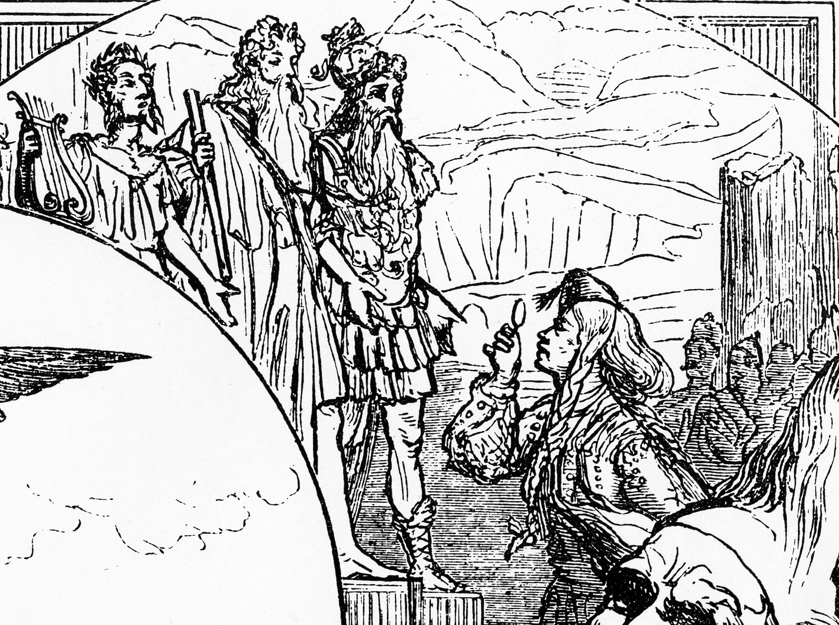 Detail from an engraving of the Pantomimes of 1871, showing the scene from Gilbert and Sullivan's Thespis where Thespis first meets the gods.